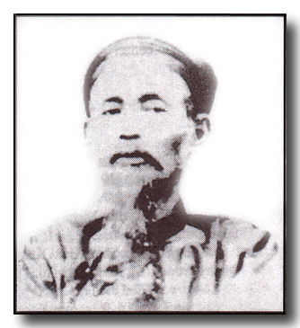 Photograph of Ngo Dinh Kha in traditional Mandarin robes